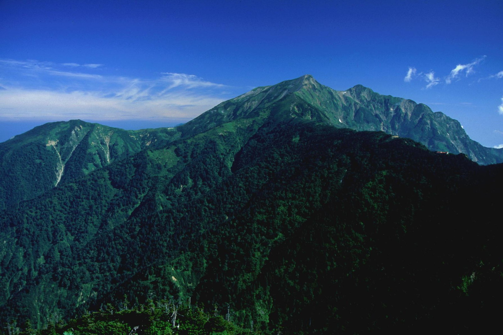 Mount Kashimayari from Mount Jii, Hida Mountains, Japan.